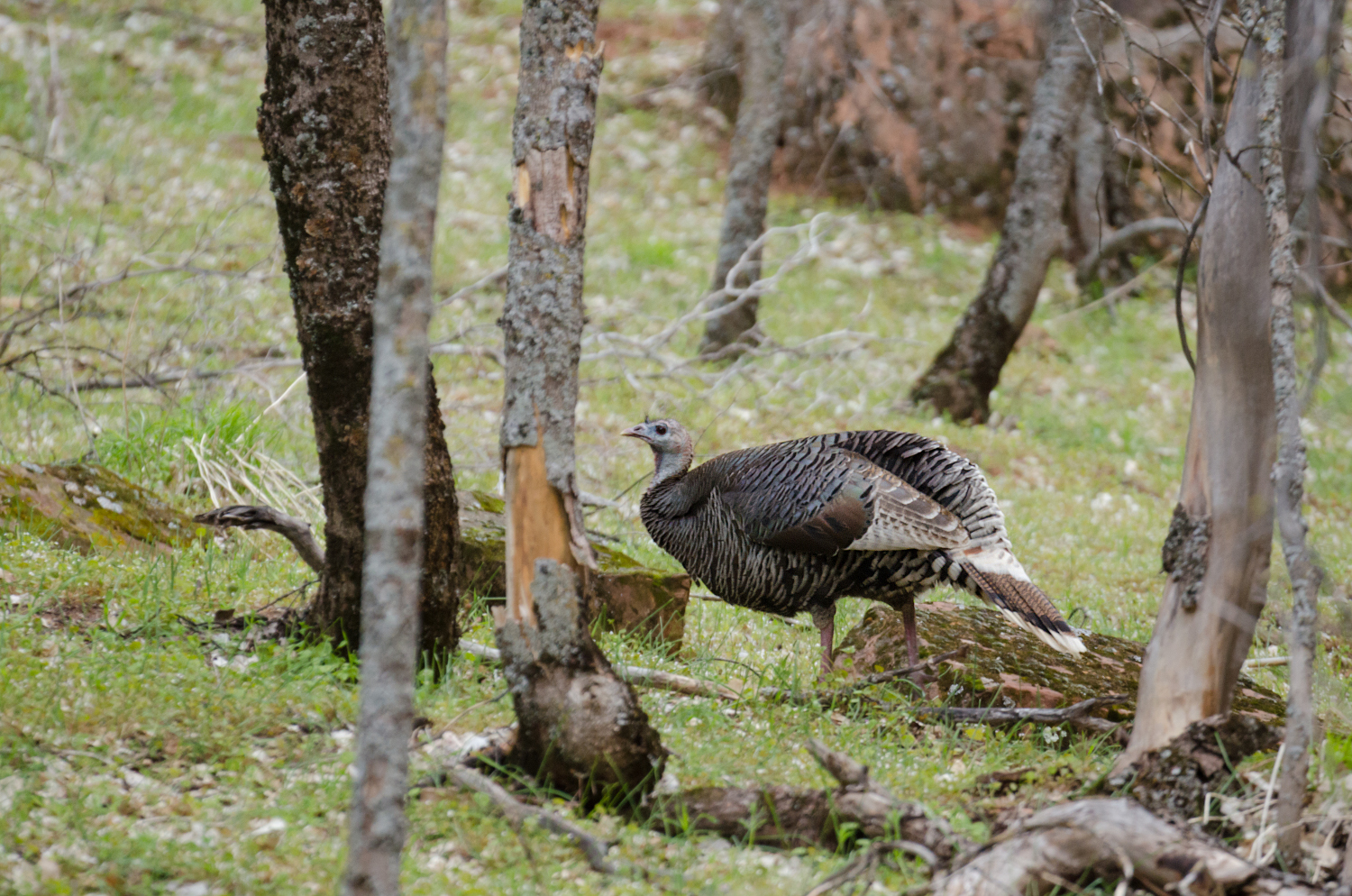 Wild Turkey in twilight found in Zion National Park, USA